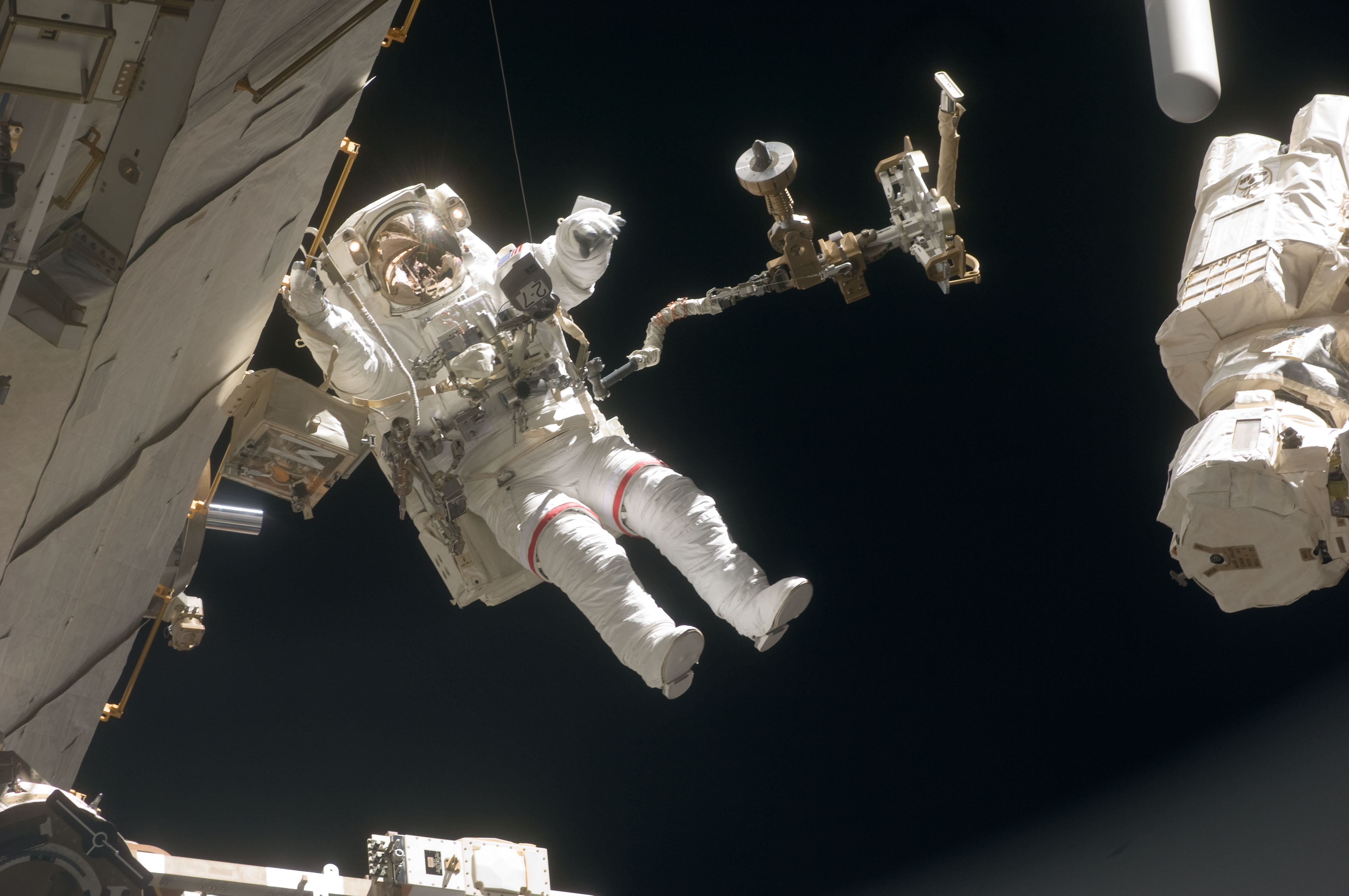 This is one of a series of digital still images showing astronaut Dave Wolf performing his second spacewalk and the Endeavour's second also of the scheduled five overall in a little over a week's time to continue work on the International Space Station. The equipment floating in front of Wolf is tethered to his spacesuit. Astronauts Wolf and Tom Marshburn (out of frame), both mission specialists, successfully transferred a spare KU-band antenna to long-term storage on the space station, along with a backup coolant system pump module and a spare drive motor for the station's robot arm transporter. Installation of a television camera on the Japanese Exposed Facility experiment platform was deferred to a later spacewalk.